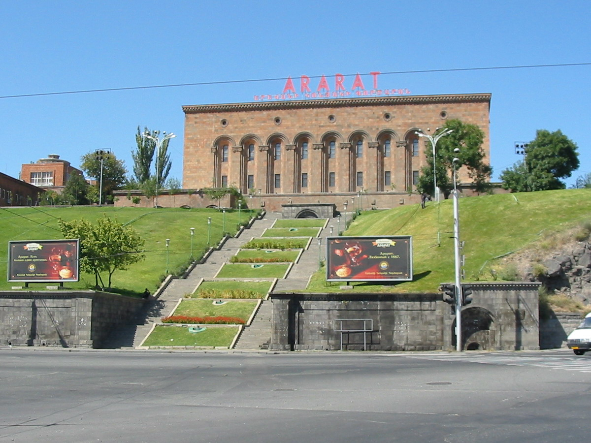 View of Yerevan Brandy Company